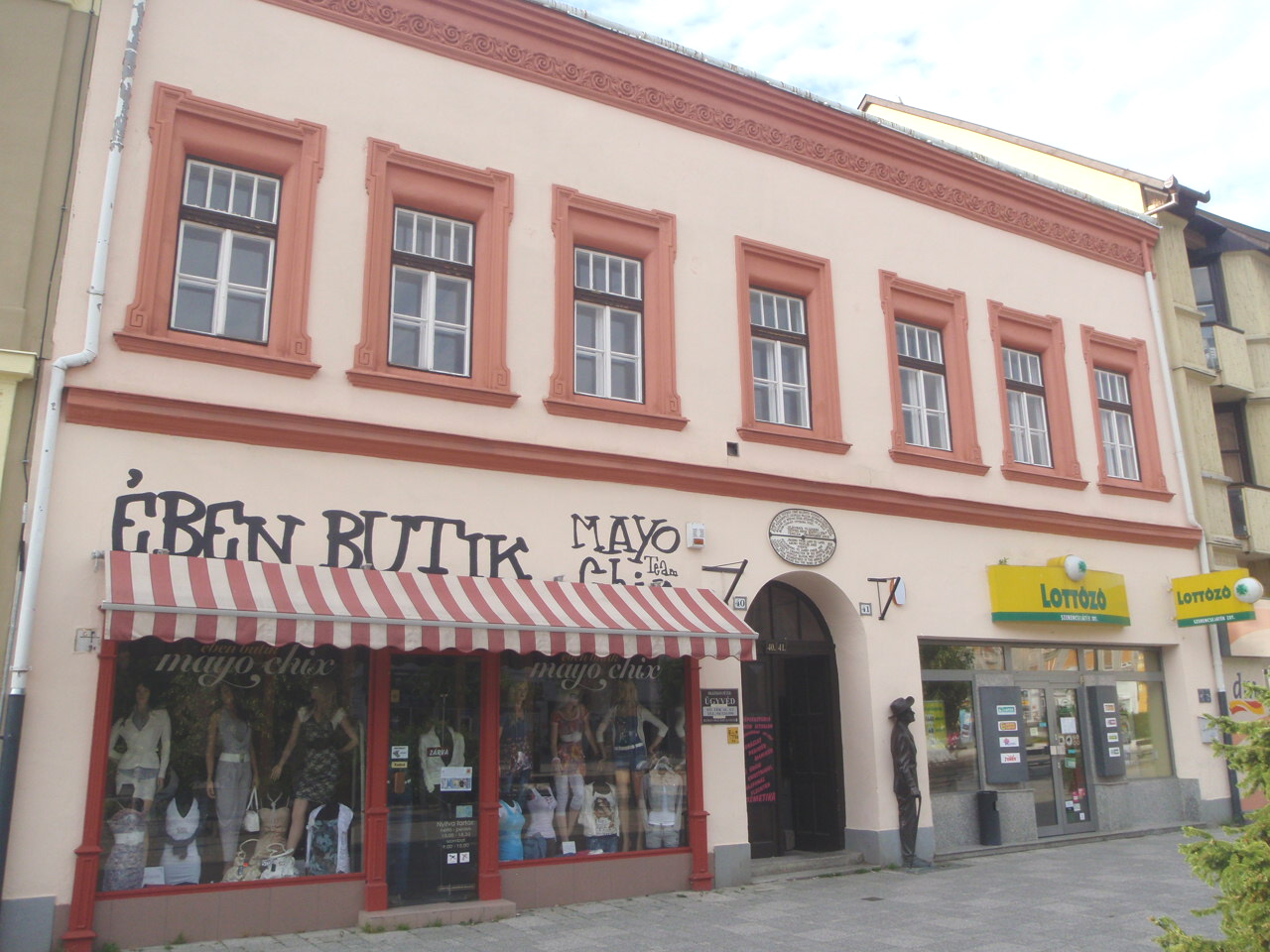 Home of the Leopold Bloom Family Szombathely Main Square